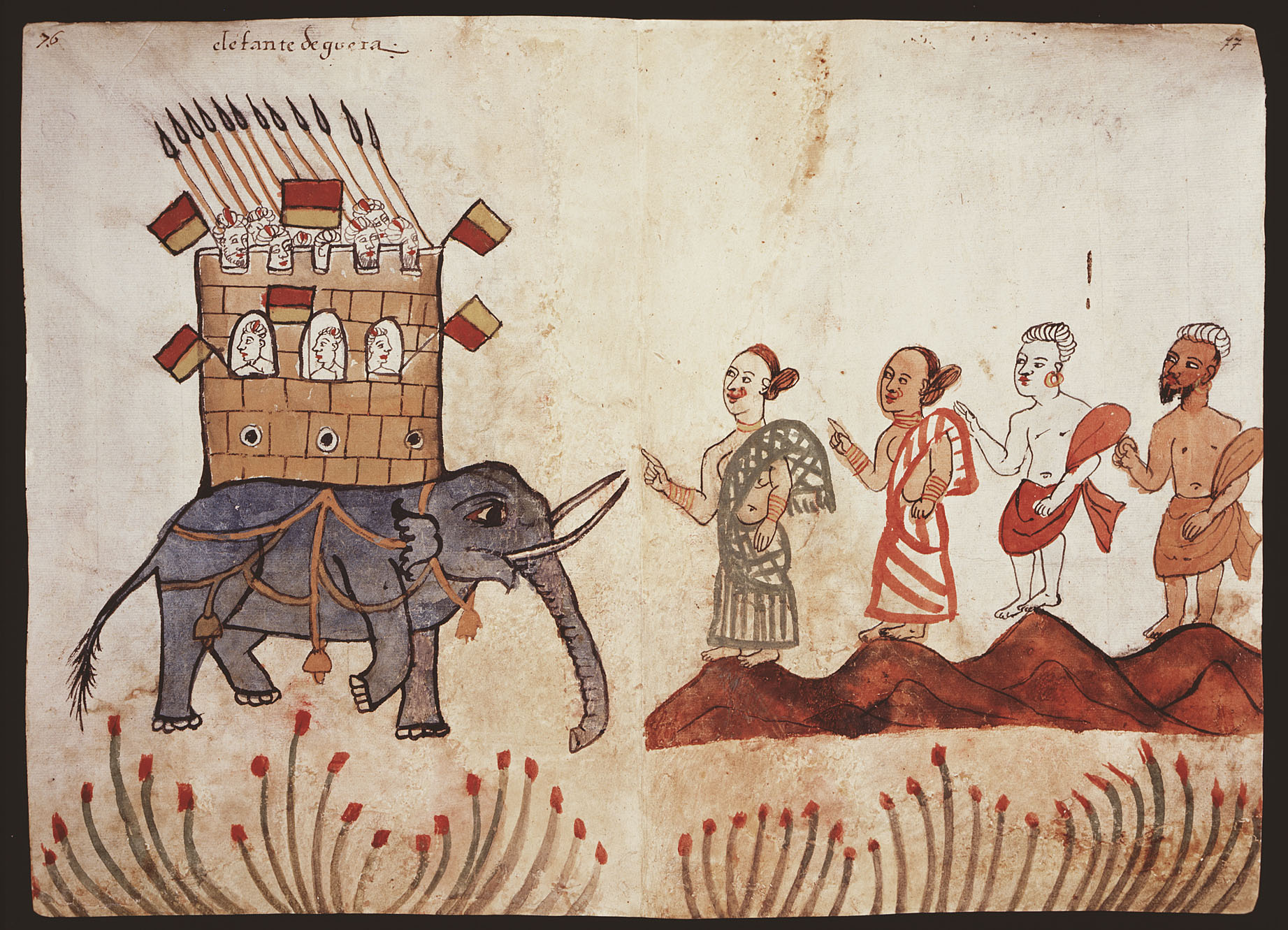 An anonymous Portuguese watercolour illustration of an Indian war elephant, from the 16th century Códice Casanatense